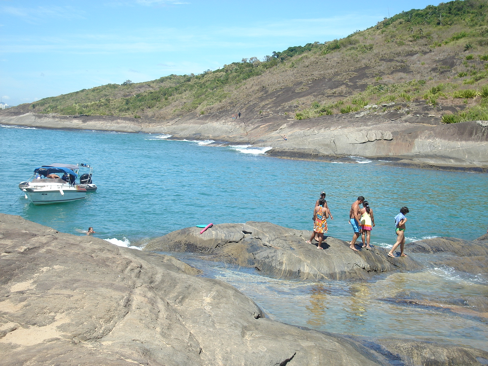 Setiba's Beach